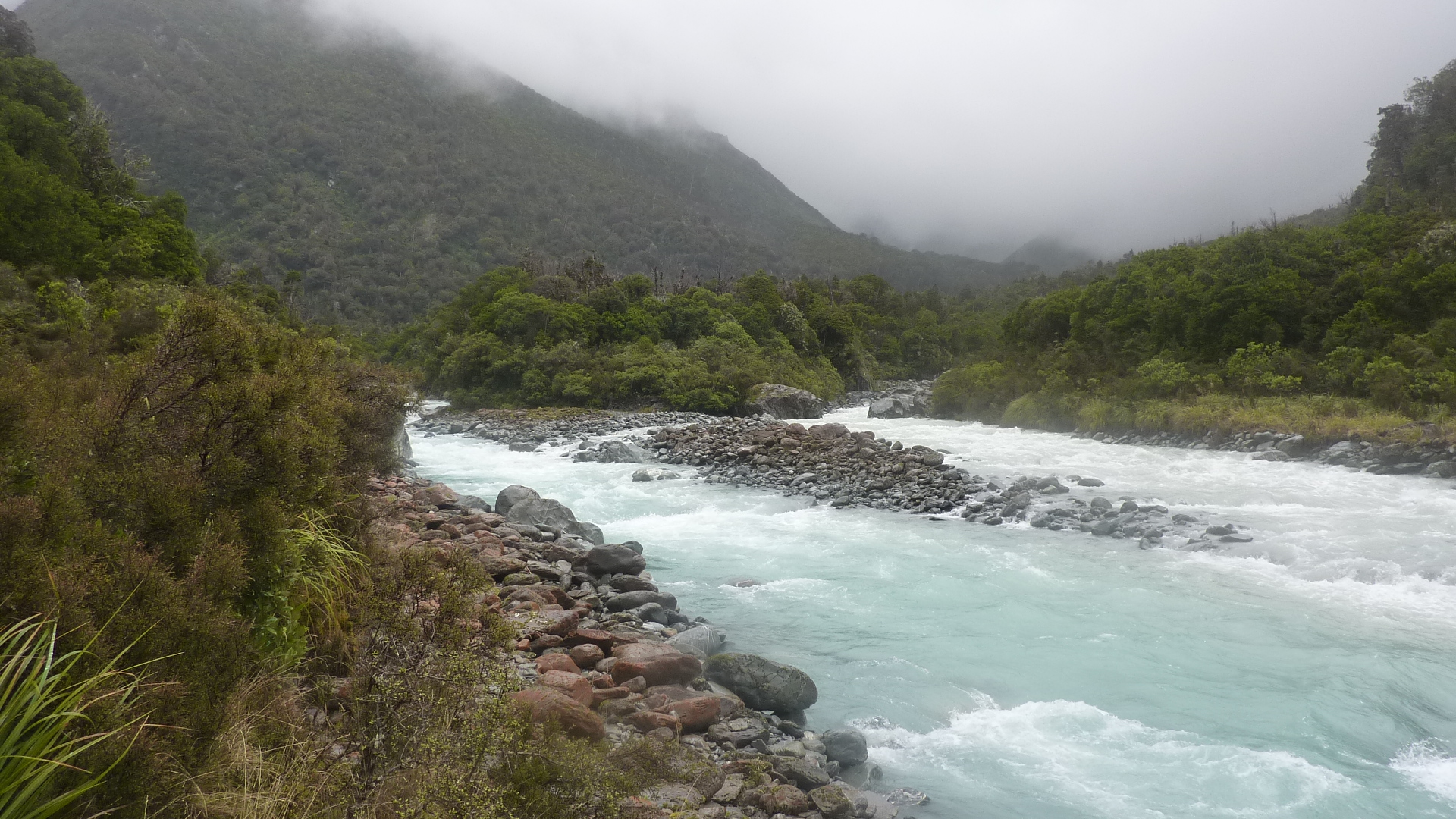 Wilkinson River - Confluence with Whitcombe River - Wilkinson on the RHS